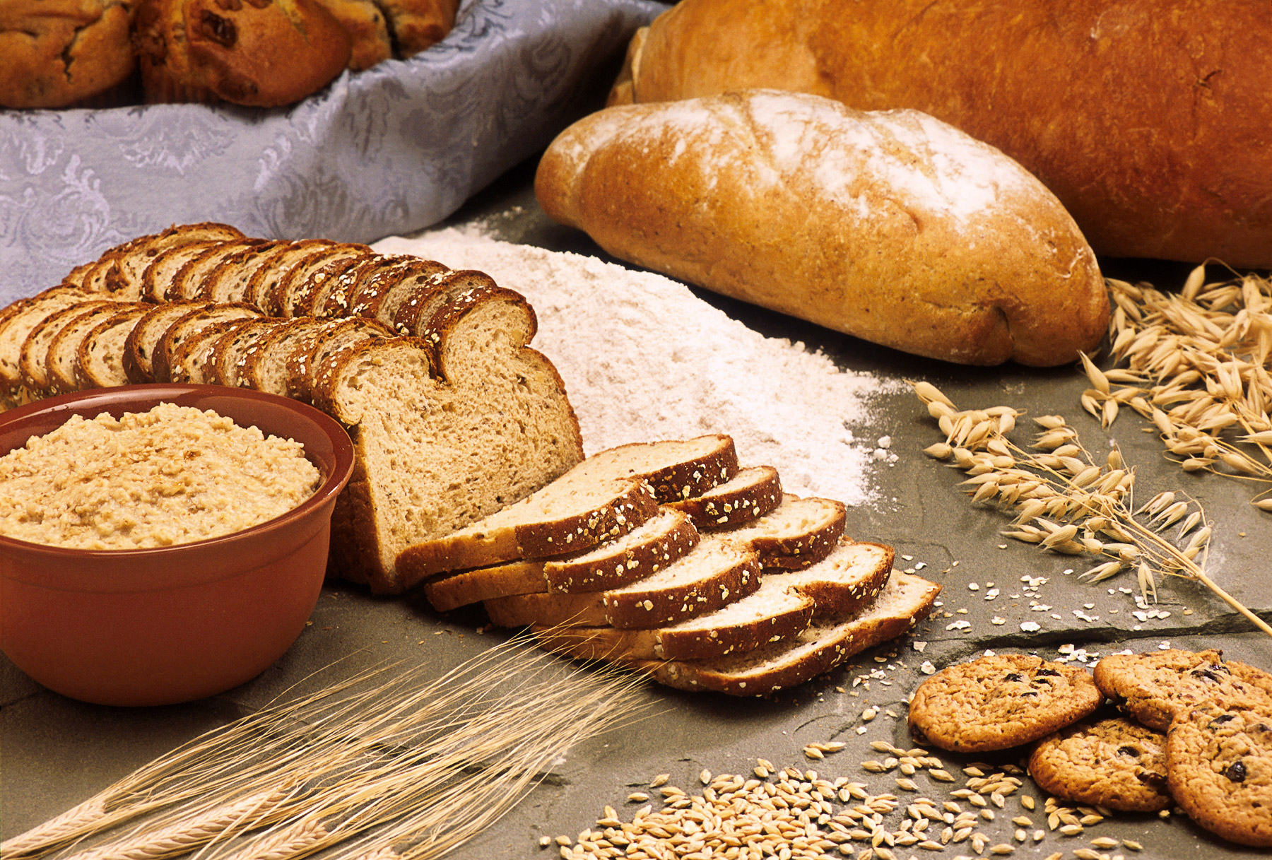 Oats, barley, and some products made from them